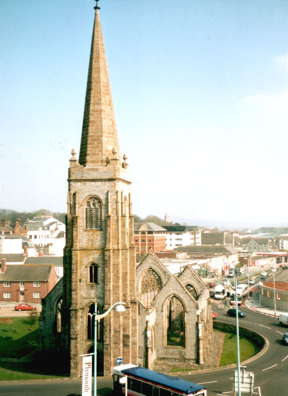 Charles Church from top of old multi-story car park.